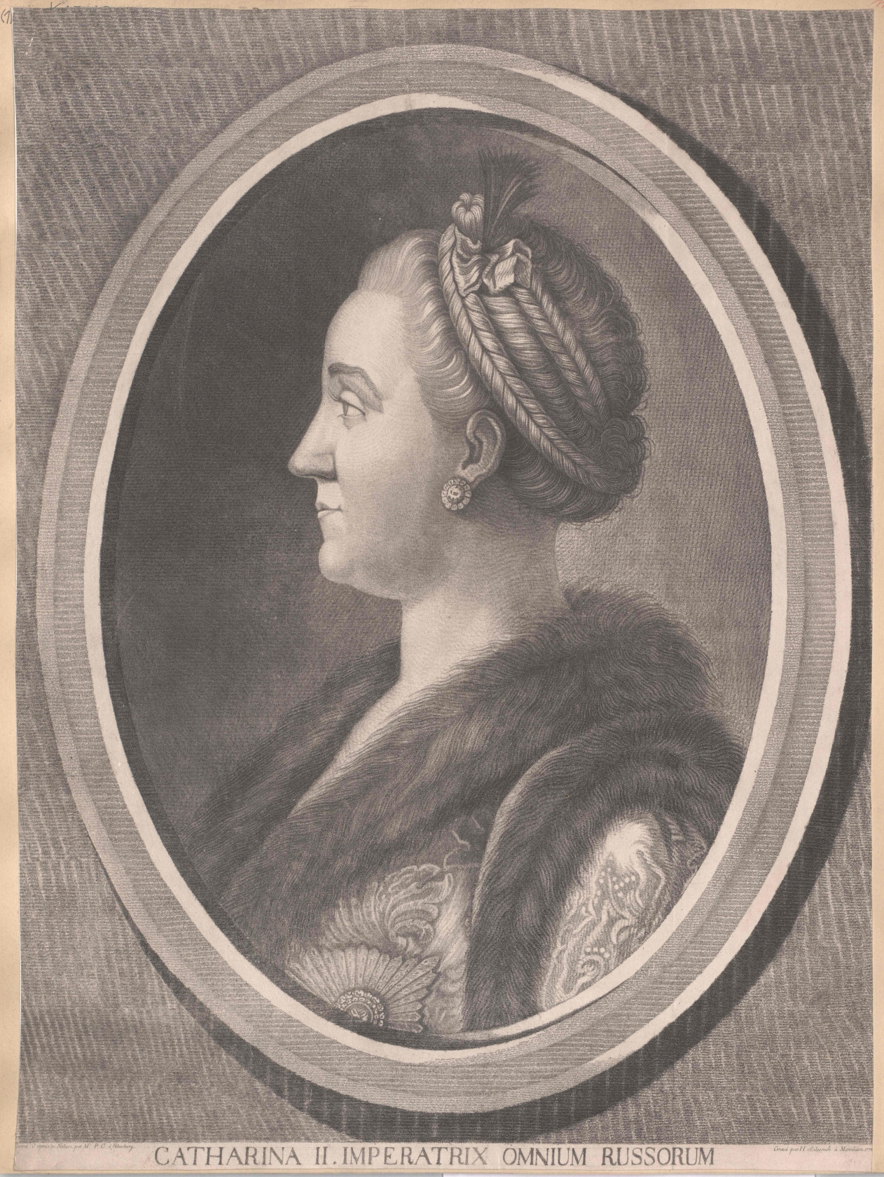 Catherine II of Russia, empress of Russia; Catherine II the Great (1729-1796)